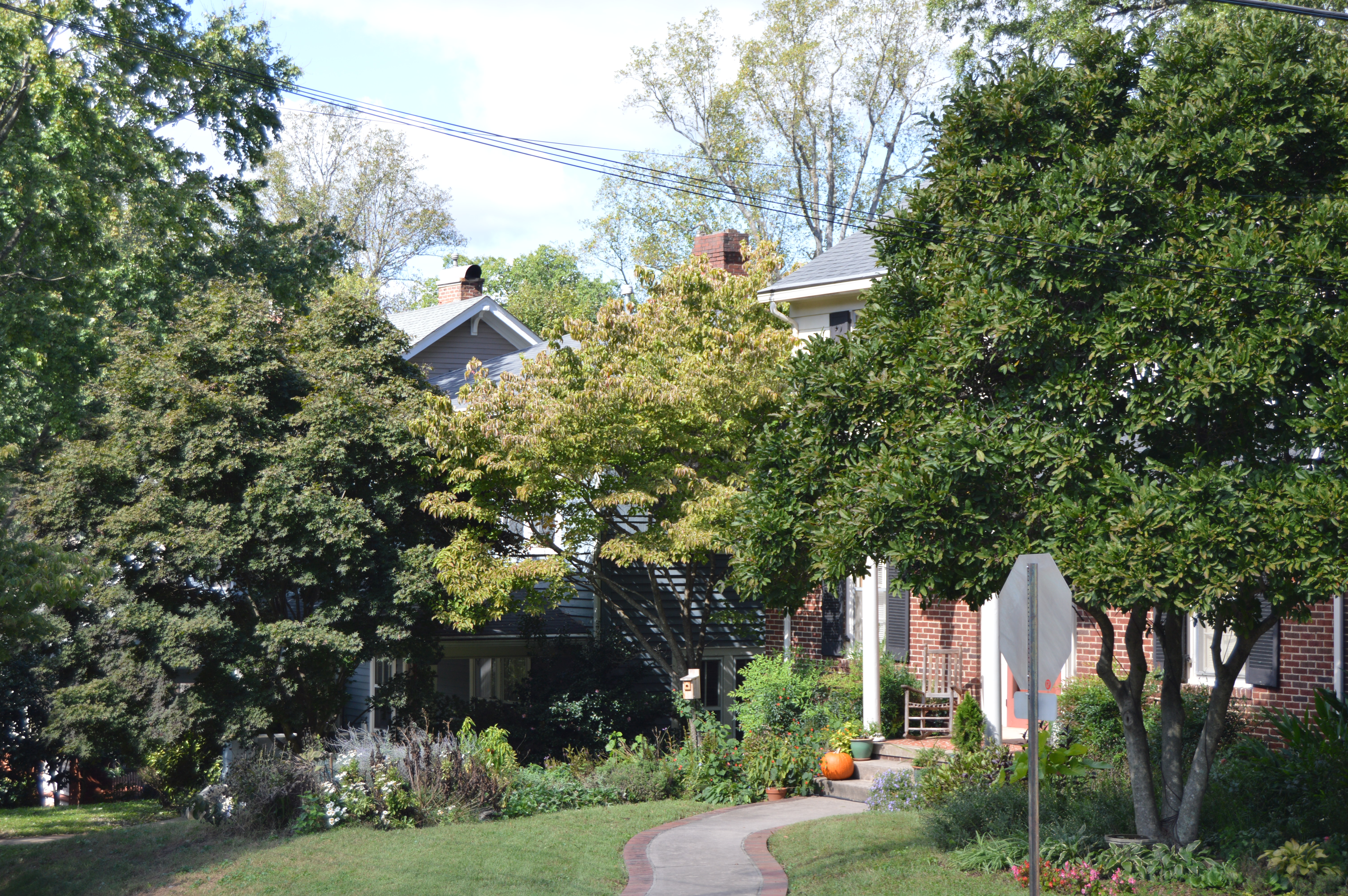 Houses on the northern side of Cascade Avenue just west of the Park Avenue intersection in Winston-Salem, North Carolina, United States. This block is part of the Washington Park Historic District, a historic district that is listed on the National Register of Historic Places.